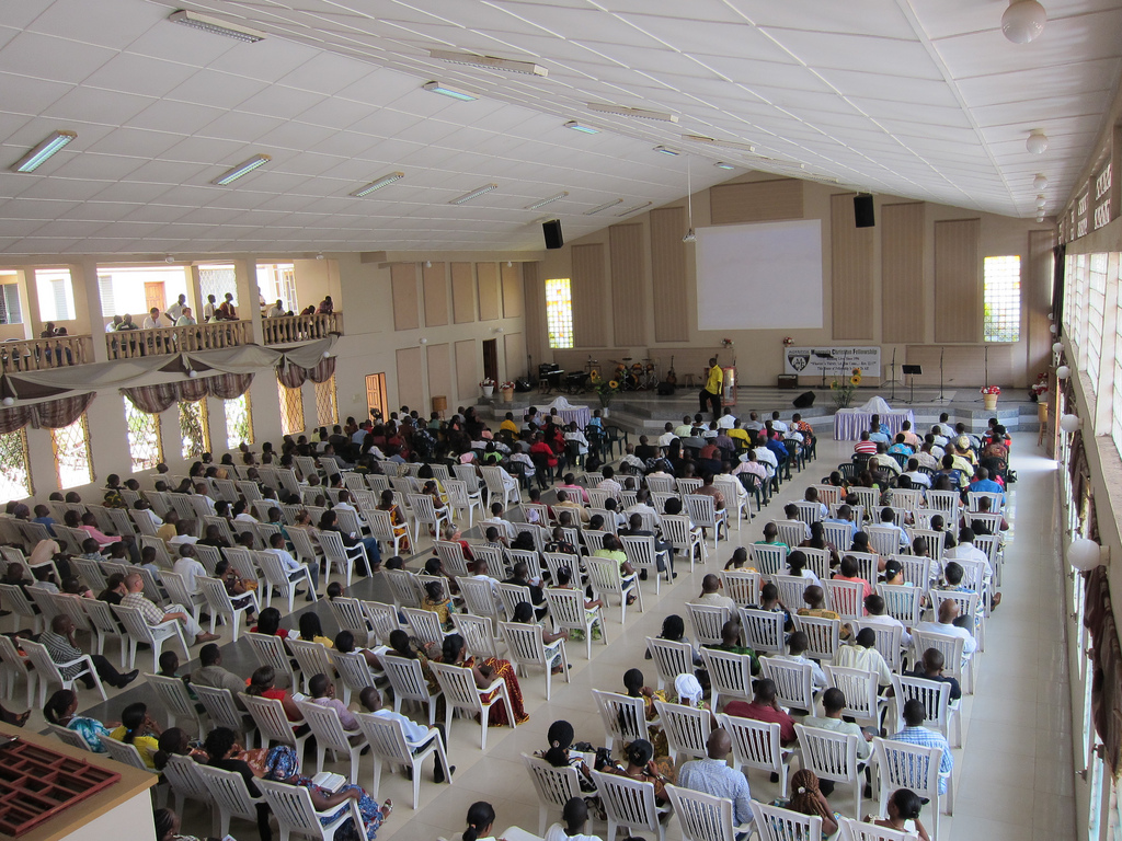 Monrovia Christian Fellowship, Liberia